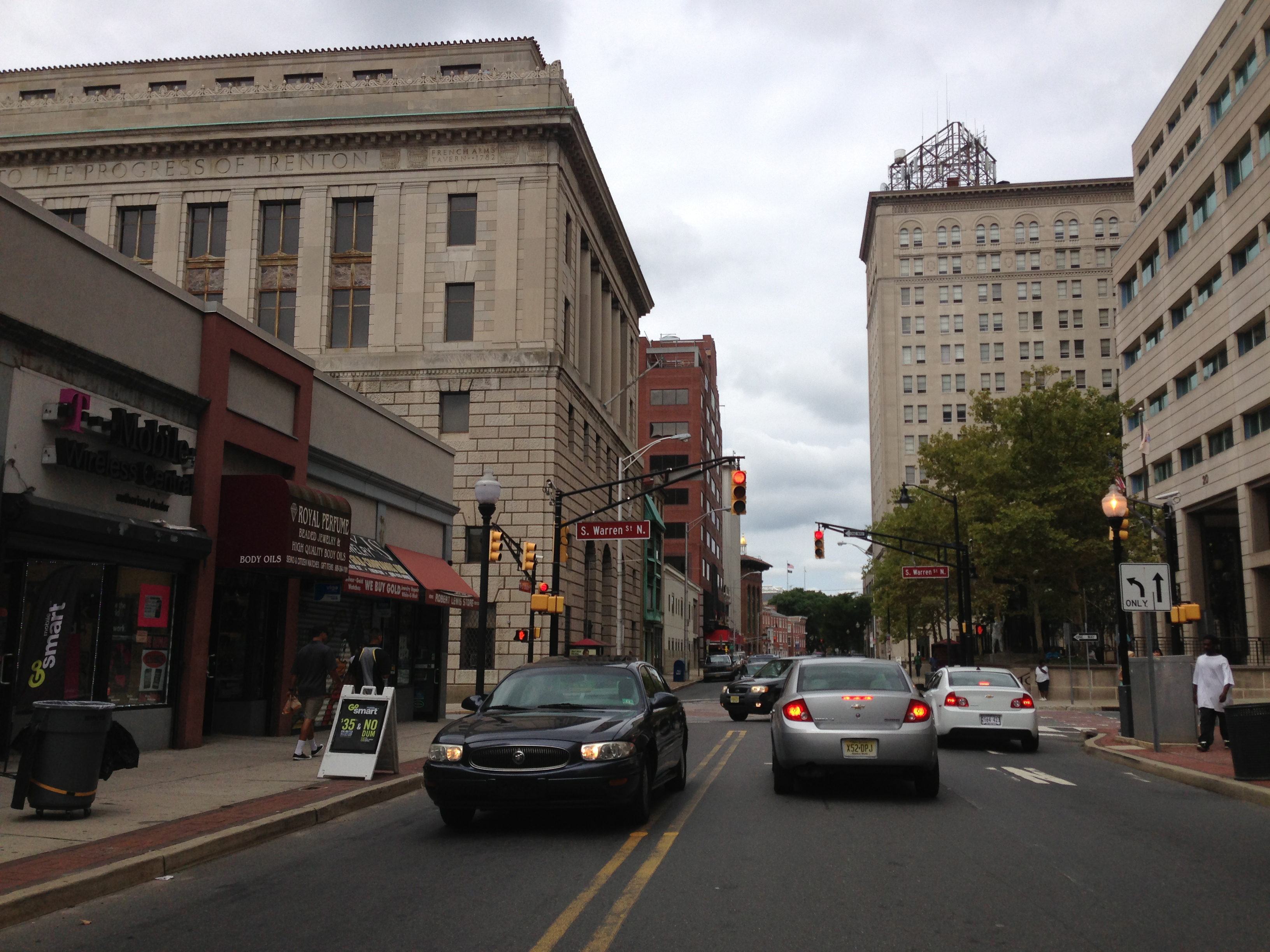 View west along East State Street near Warren Street in Trenton, New Jersey